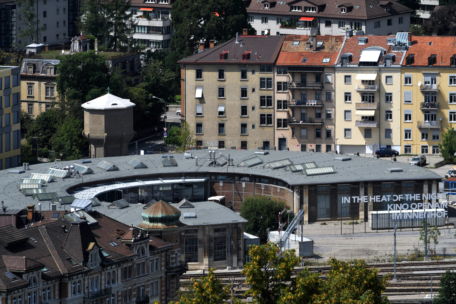 Water tower near the roundhouse at St. Gallen central station by Robert Maillart, built 1906; St. Gallen, Switzerland.